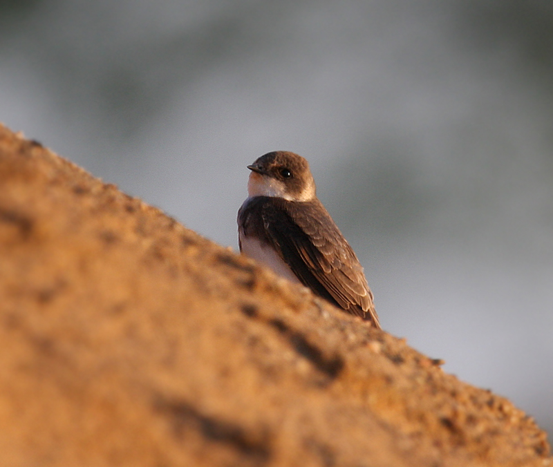 Sand Martin